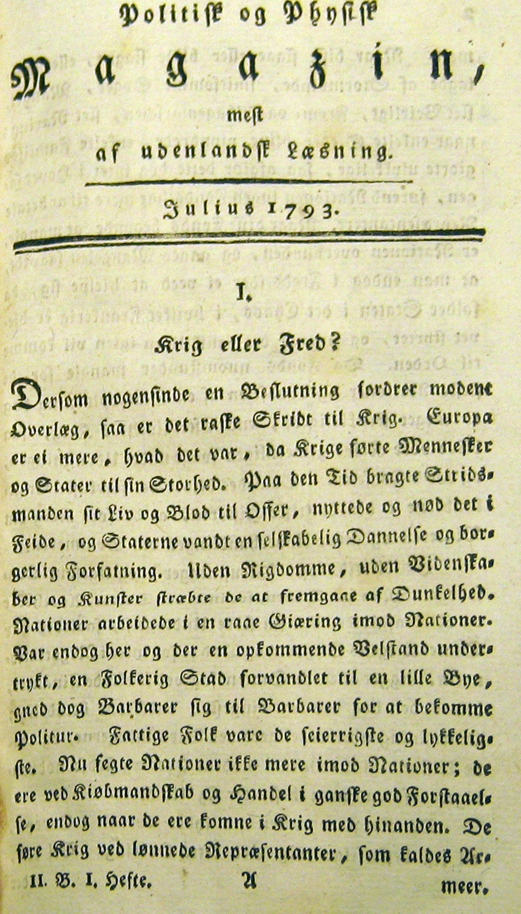 Title page of an issue of the Danish periodical "Politisk- og Physisk Magazin" from 1793 published by Rudolph Buchhave.